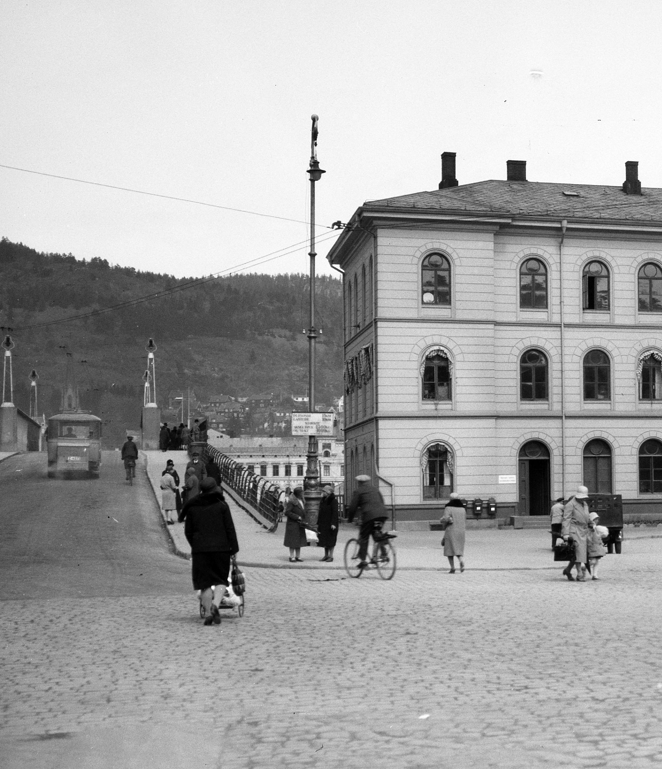 Drammen station after second floor expansion, between 1900 and 1936 (old city bridge from 1813, seen here, was replaced in 1936). Photo by Mittet & Co. AS.